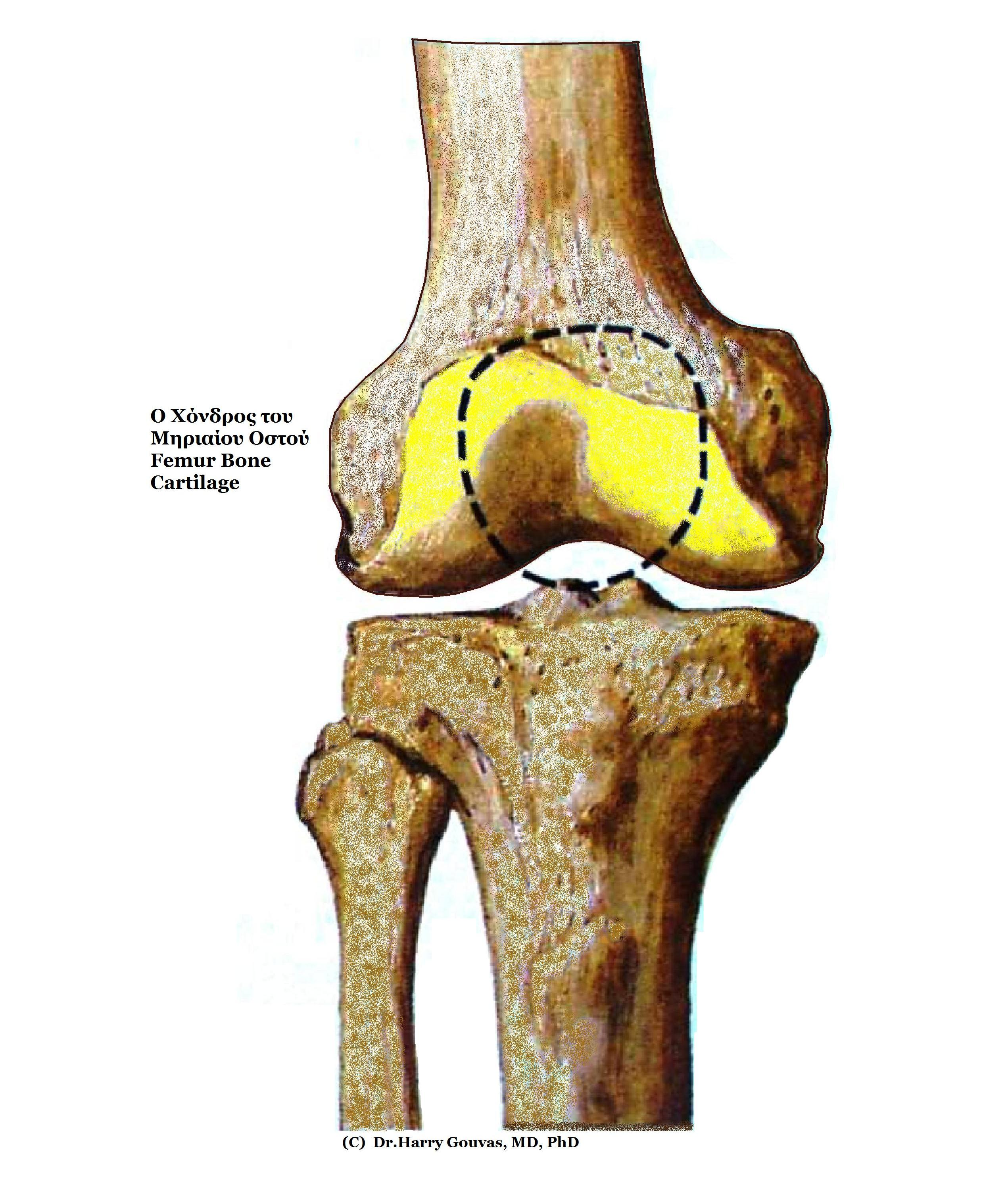 Knee femur cartilage